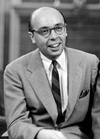 Portrait of Ahmet M. Ertegun (cropped), Turkish Embassy(?), Washington, D.C., 194-.